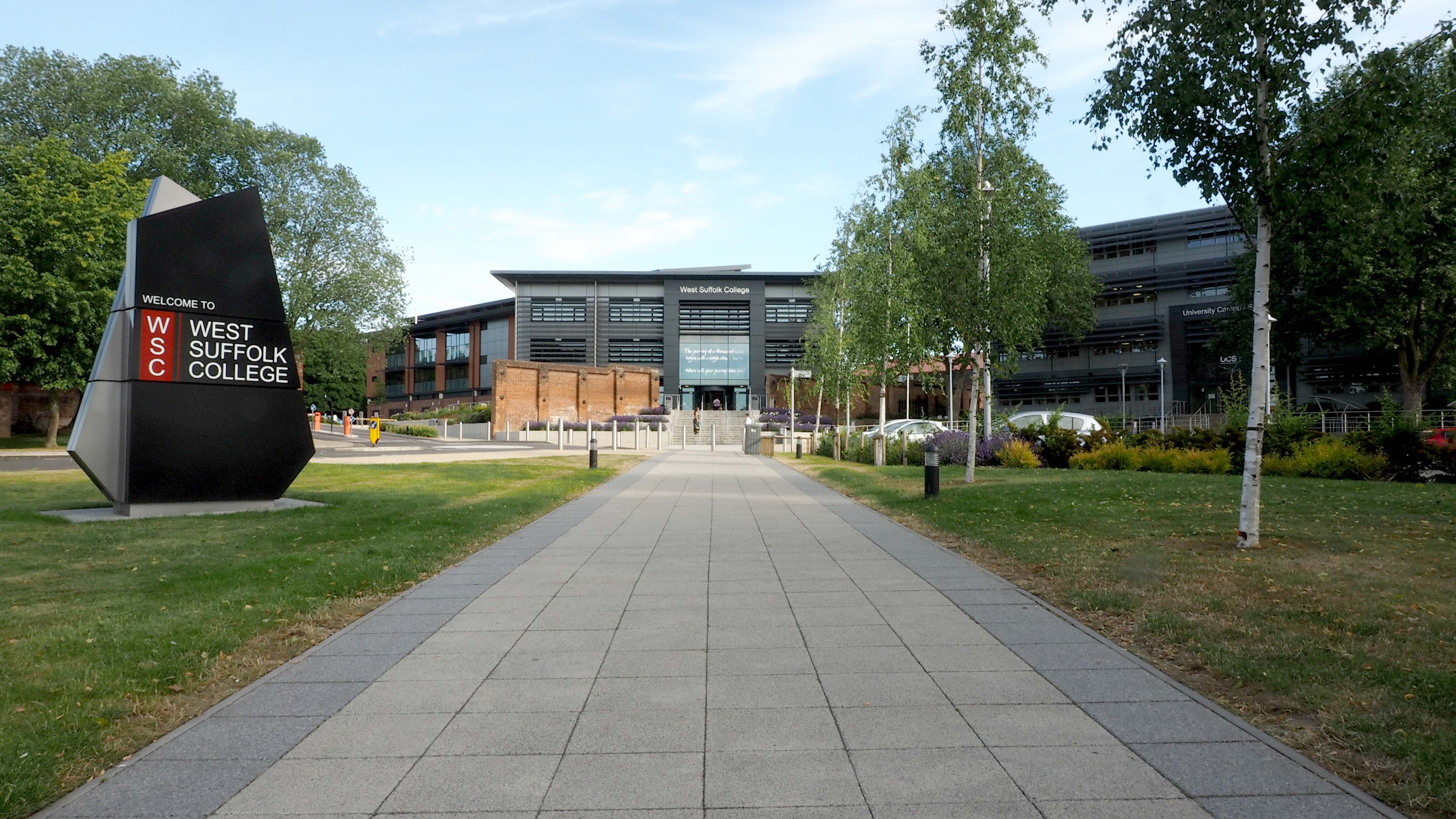 This is the front of West Suffolk College in Bury St Edmunds, Suffolk